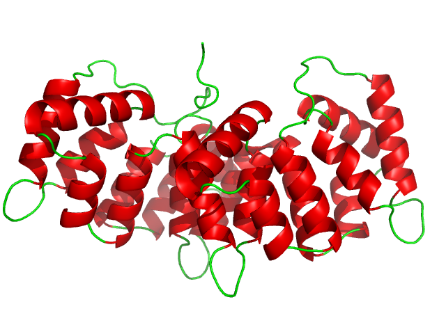 The high-resolution crystal structure of human annexin III.